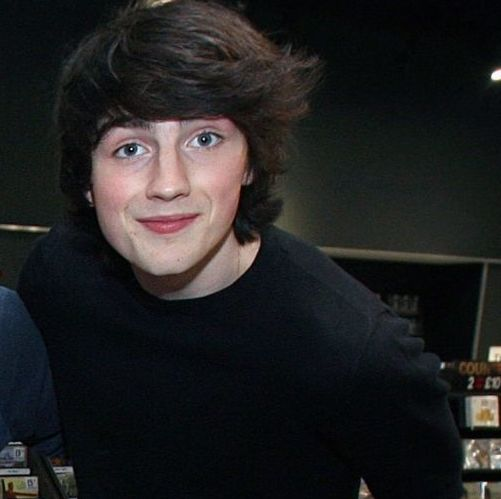 Hometown (band) Left to right: (up) Dyal, Cian, Ryan and Brendan (down) Dean and Josh.